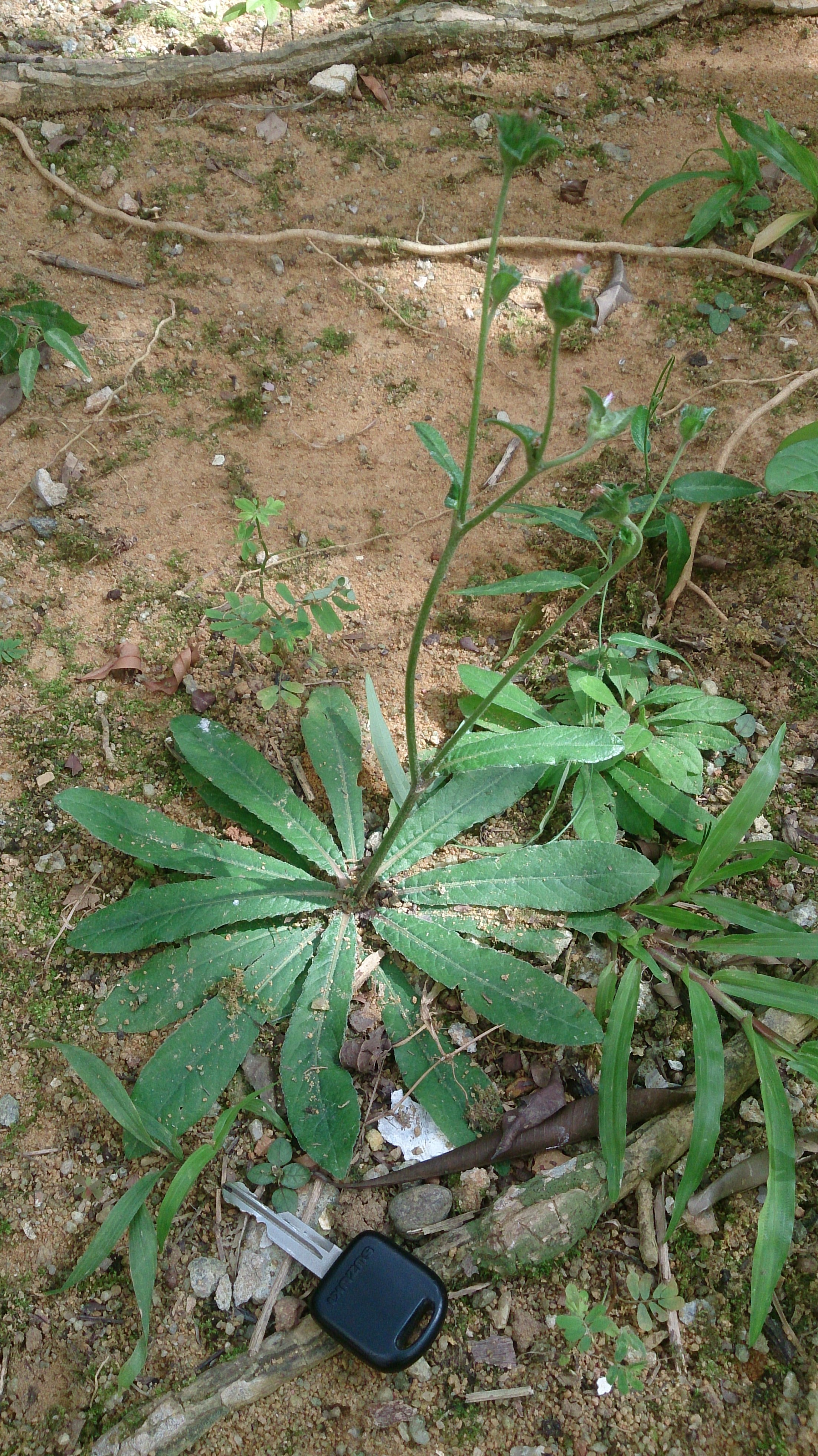 Elephantopus scaber. Common names: Elephant's Foot. Prickly Leaved Elephant's Foot. Solomon’s seal. Tutup bumi/Tapak Sulaiman (Malay)